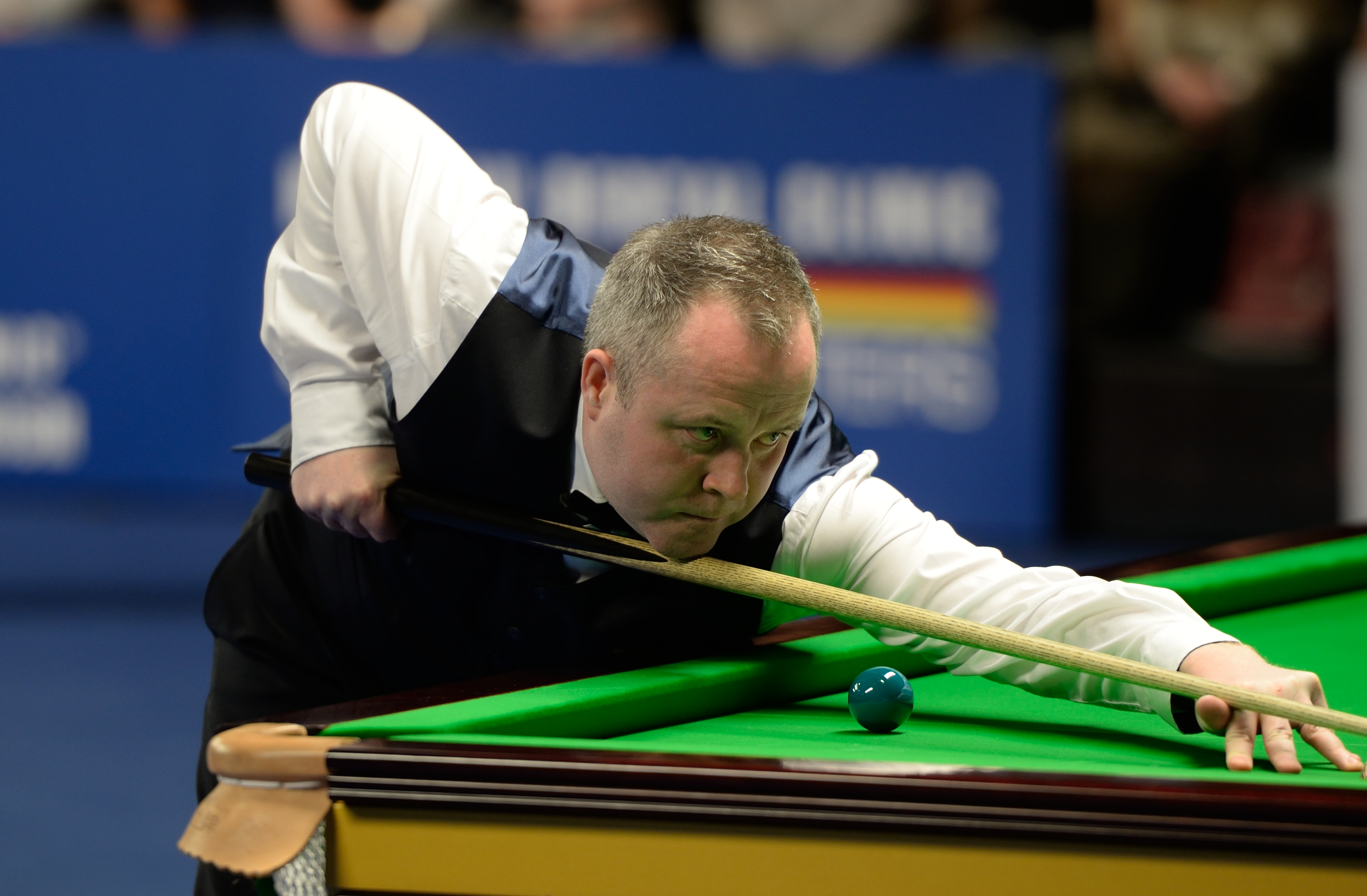 Picture taken in Berlin during the Snooker German Masters in 2015. John Higgins.